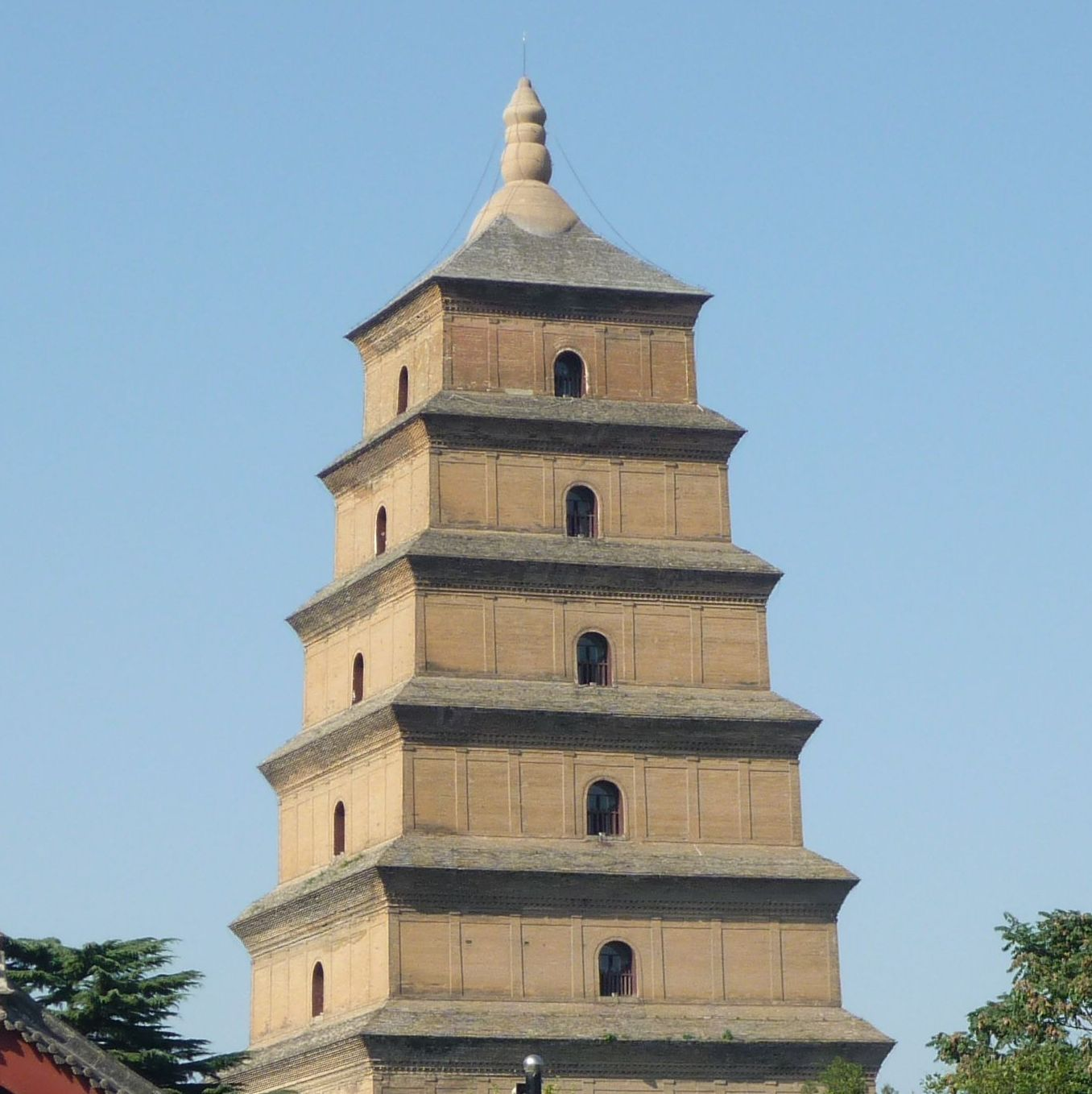 Giant Wild Goose Pagoda (大雁塔)